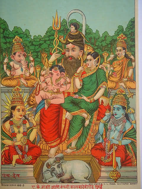 "Panch Dev" (Five Gods), in a Shiva-centric version; bazaar art, c.1910's Source: ebay, Mar. 2006